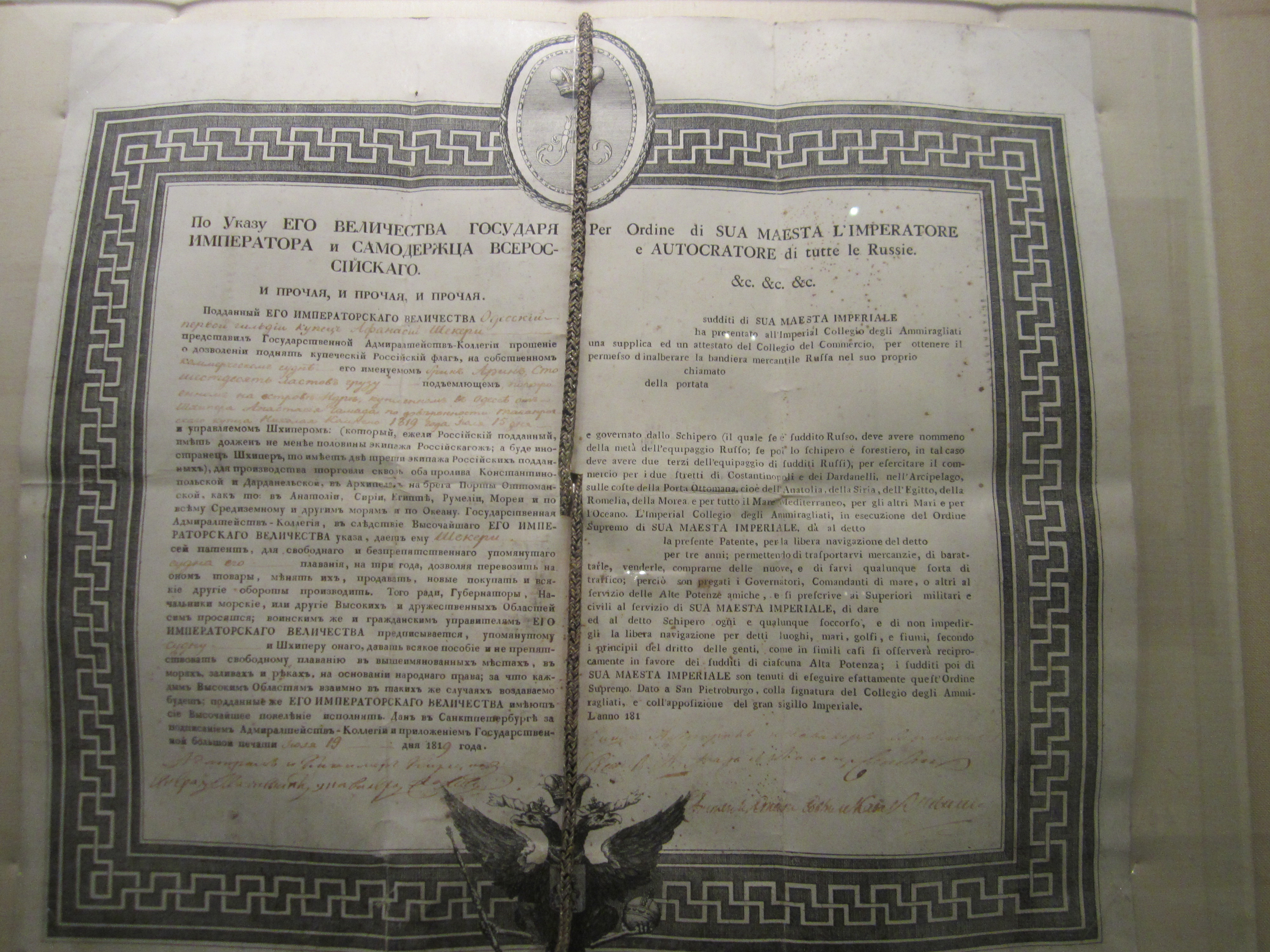 Permission to raise Russian merchant flag on the ship of Greek ship owner from island of Hydra, 1819. Museum of Hydra, Greece.